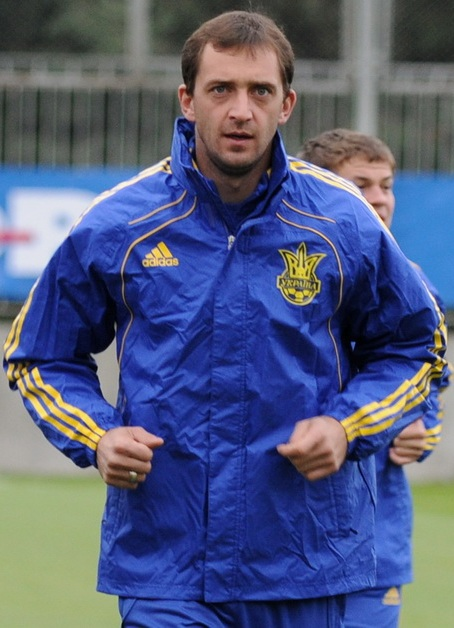 Andriy Dikan